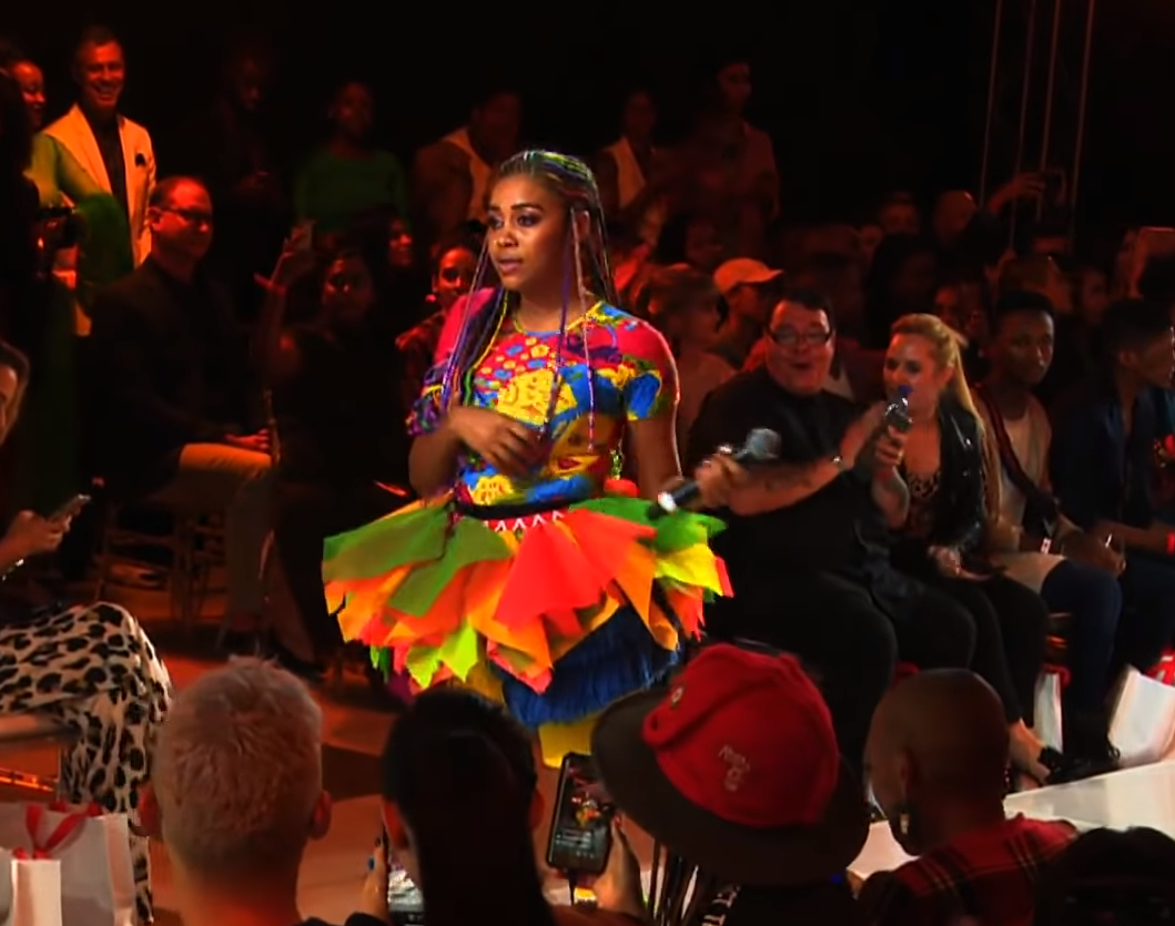 Screenshot from a video of Sho Madjozi performing "Wakanda Forever" at the Edgars Fashion Show in March 2019.